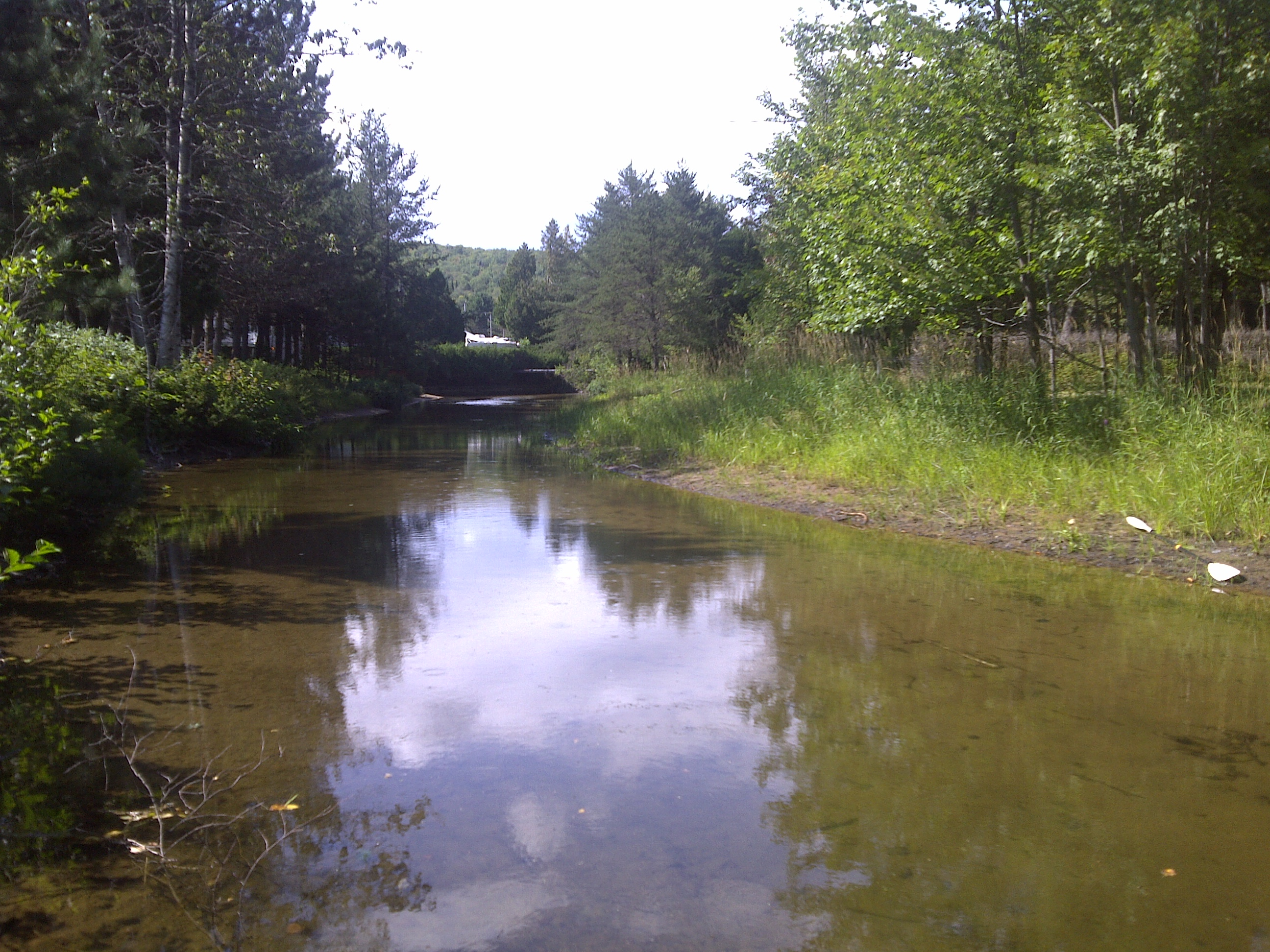 Beginning of Propre River, located in Lac-aux-Sables, Quebec, Canada.